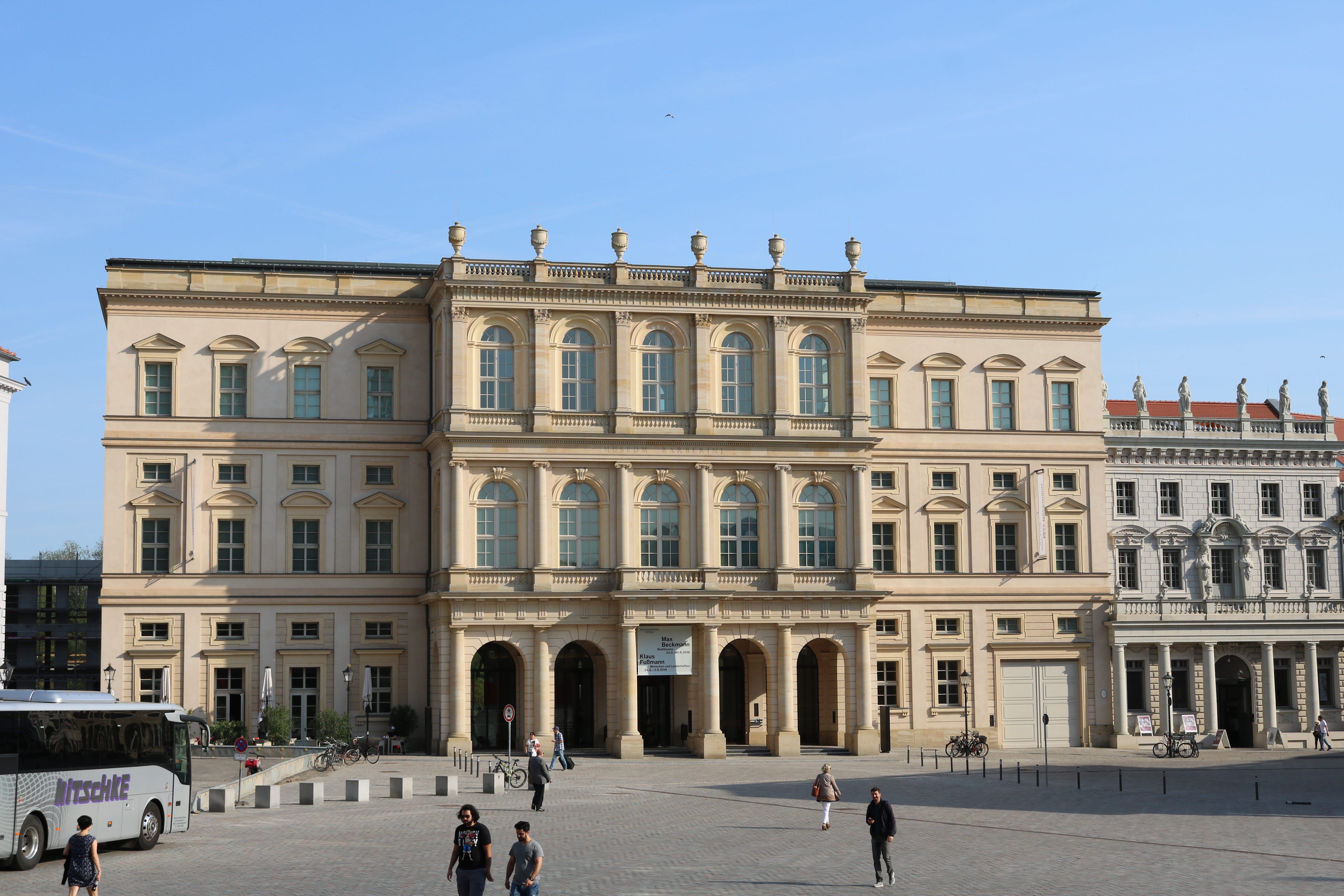 Museum Barberini in Potsdam. April 2018.